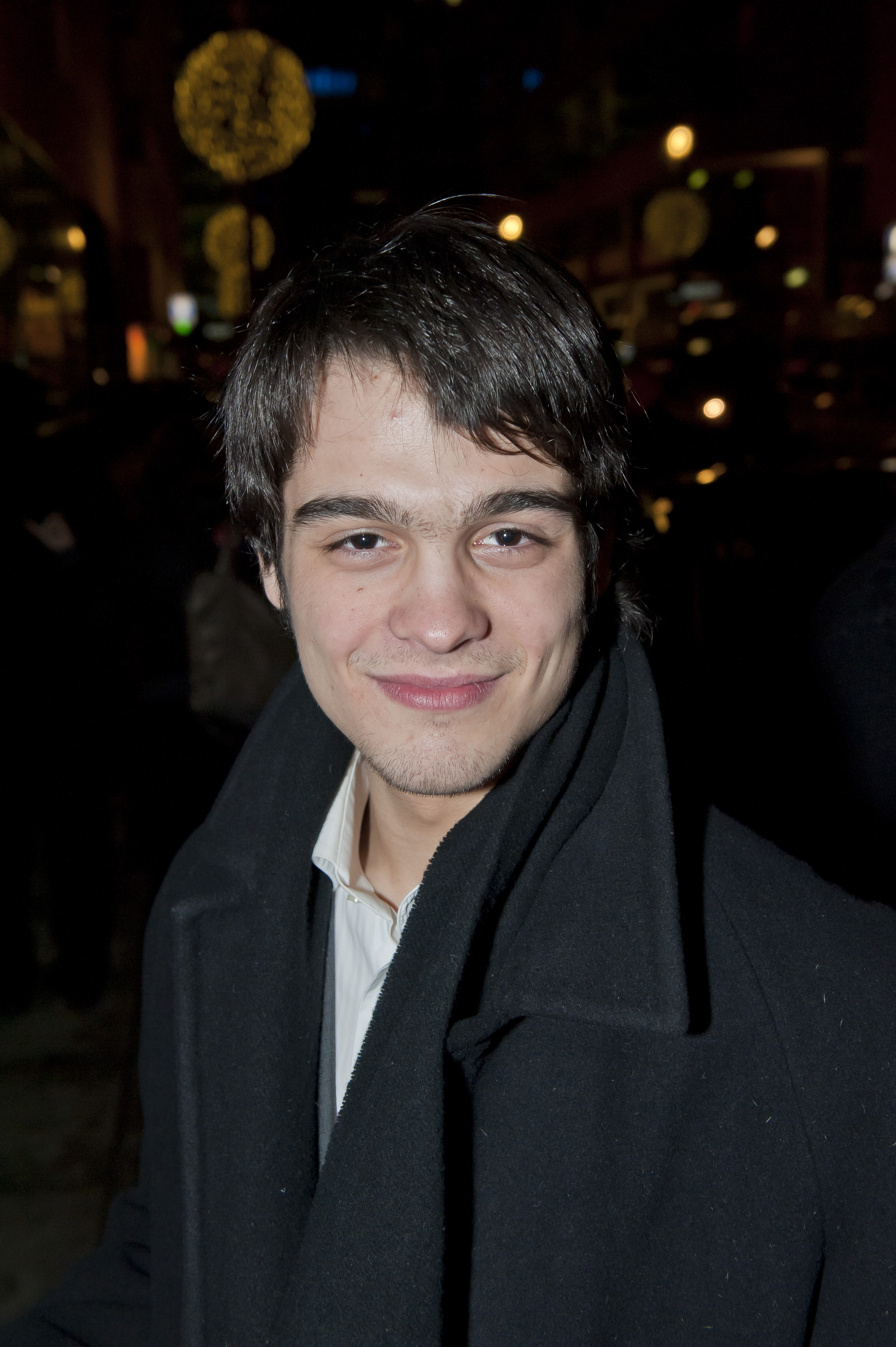 Romanian actor George Piștereanu, "If I Want to Whistle, I Whistle"